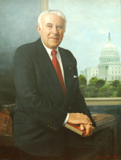 Benjamin Gilman